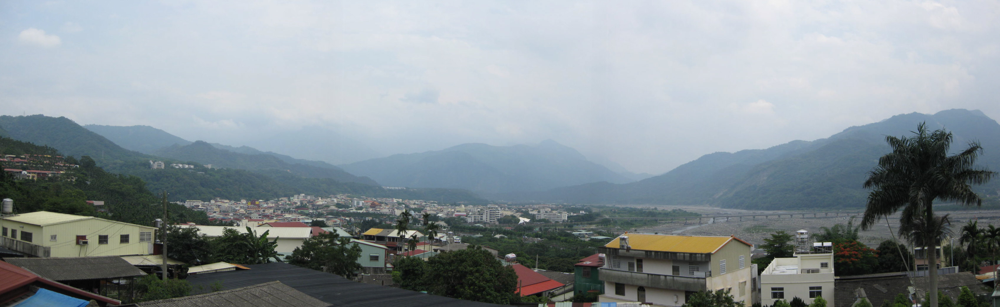 Panoramic view of Shuili.This picture center shows Siluandashan in the distance,and it right shows the Zhuoshui River.